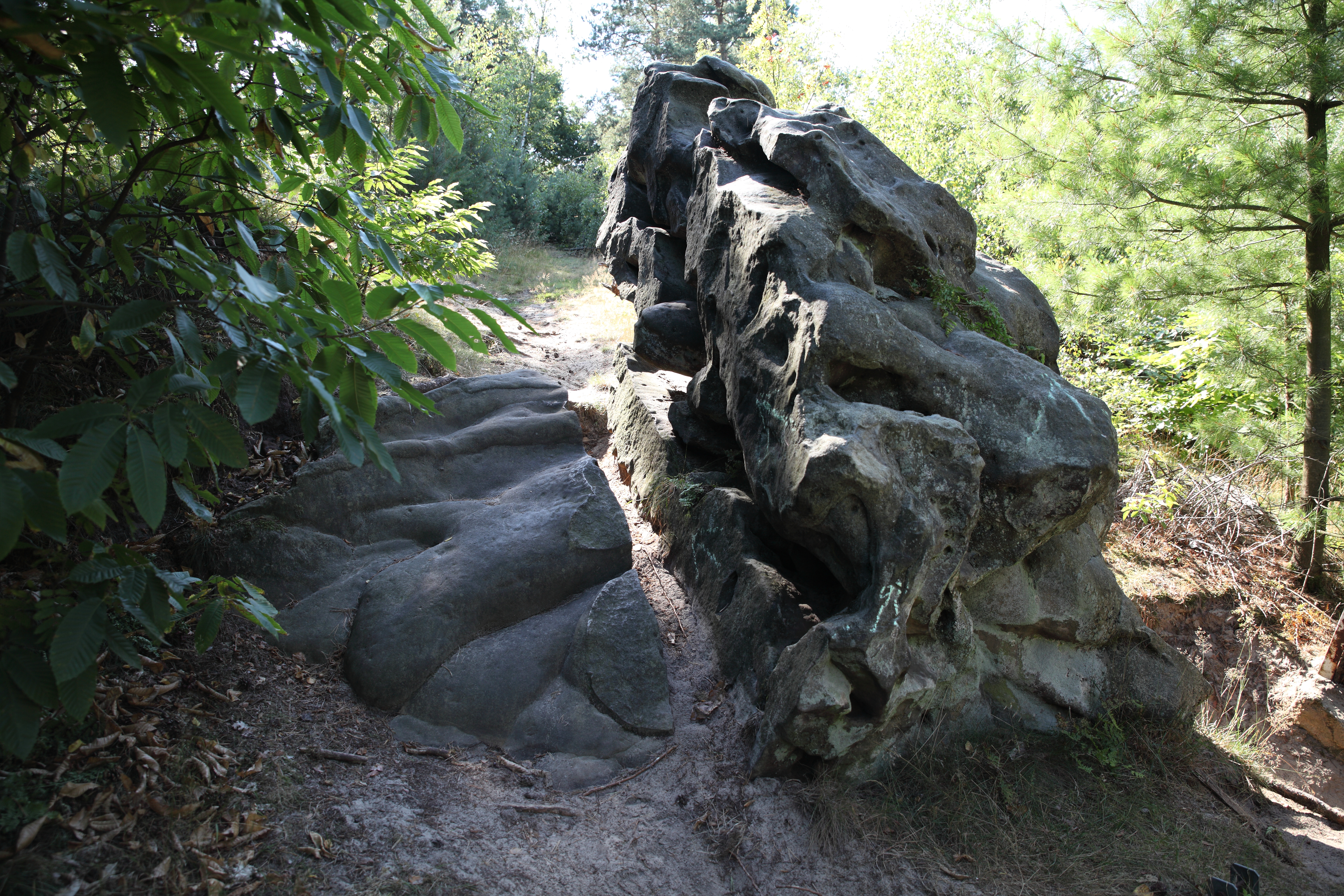 Devilsstone at Stimberg (block of quartzite)